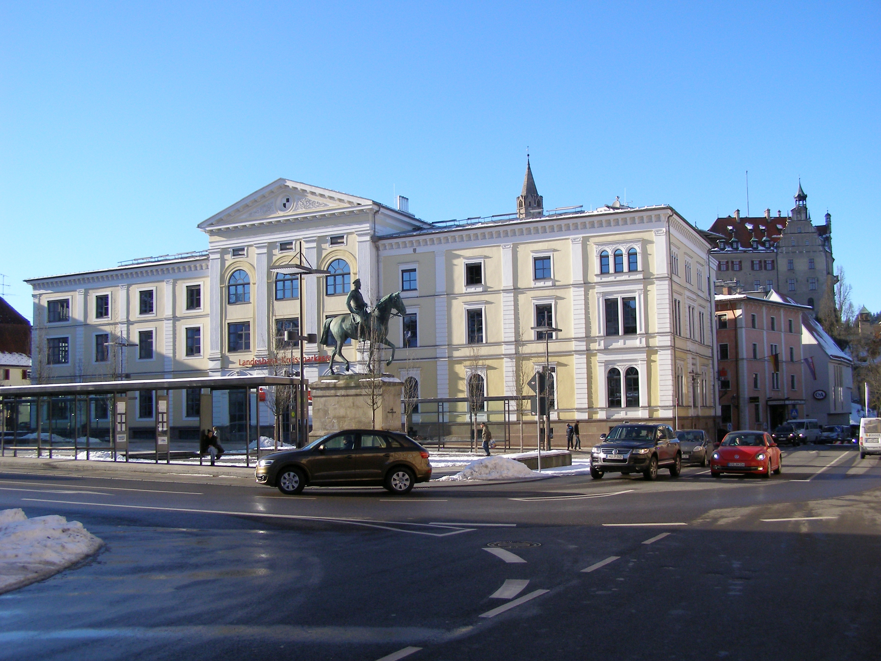 Sigmaringen - building of the savings bank